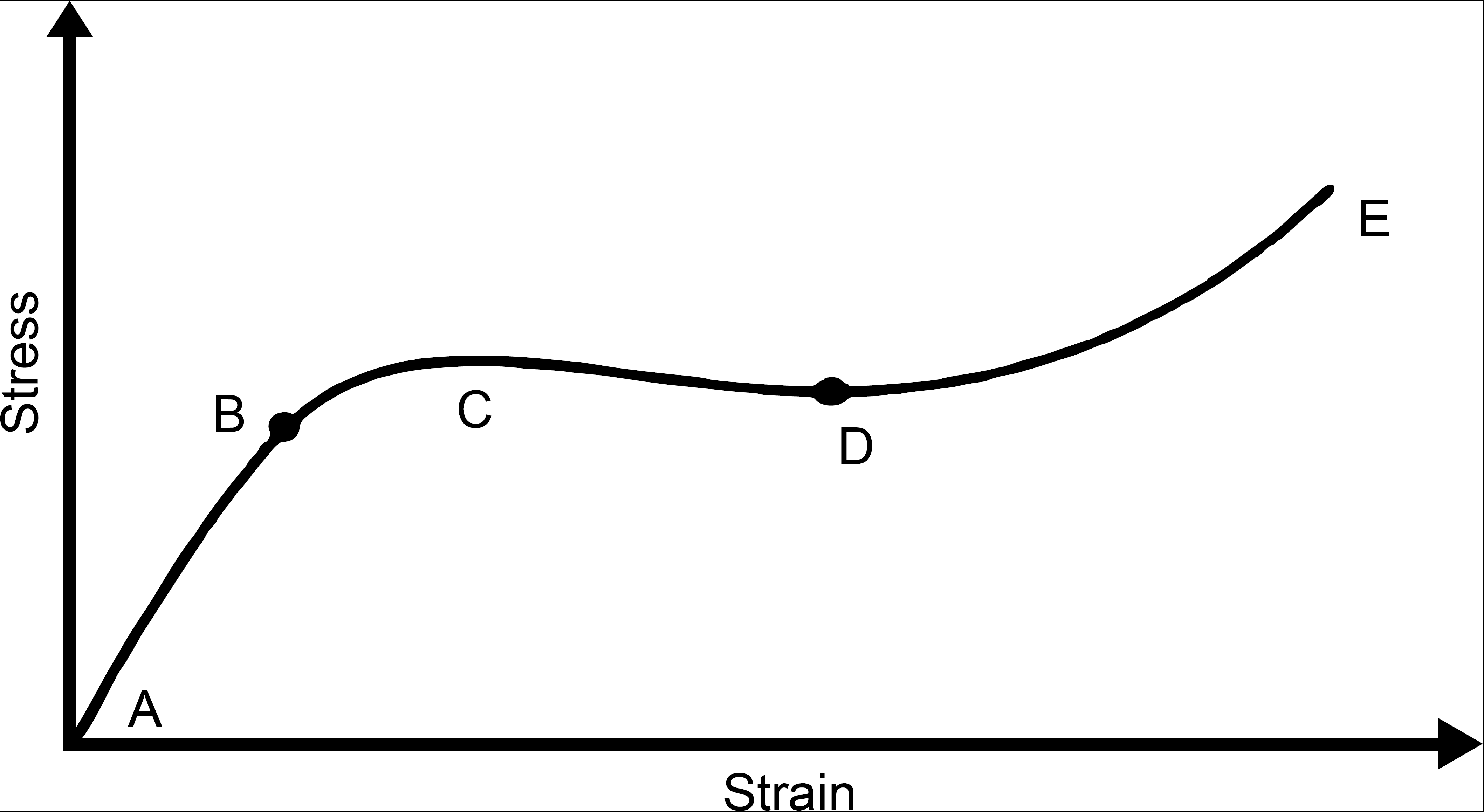 Engineering Stress-Strain diagram of a typical polymer. A-B: Hook's law region C: Yielding C-D: Necking E: Rupture